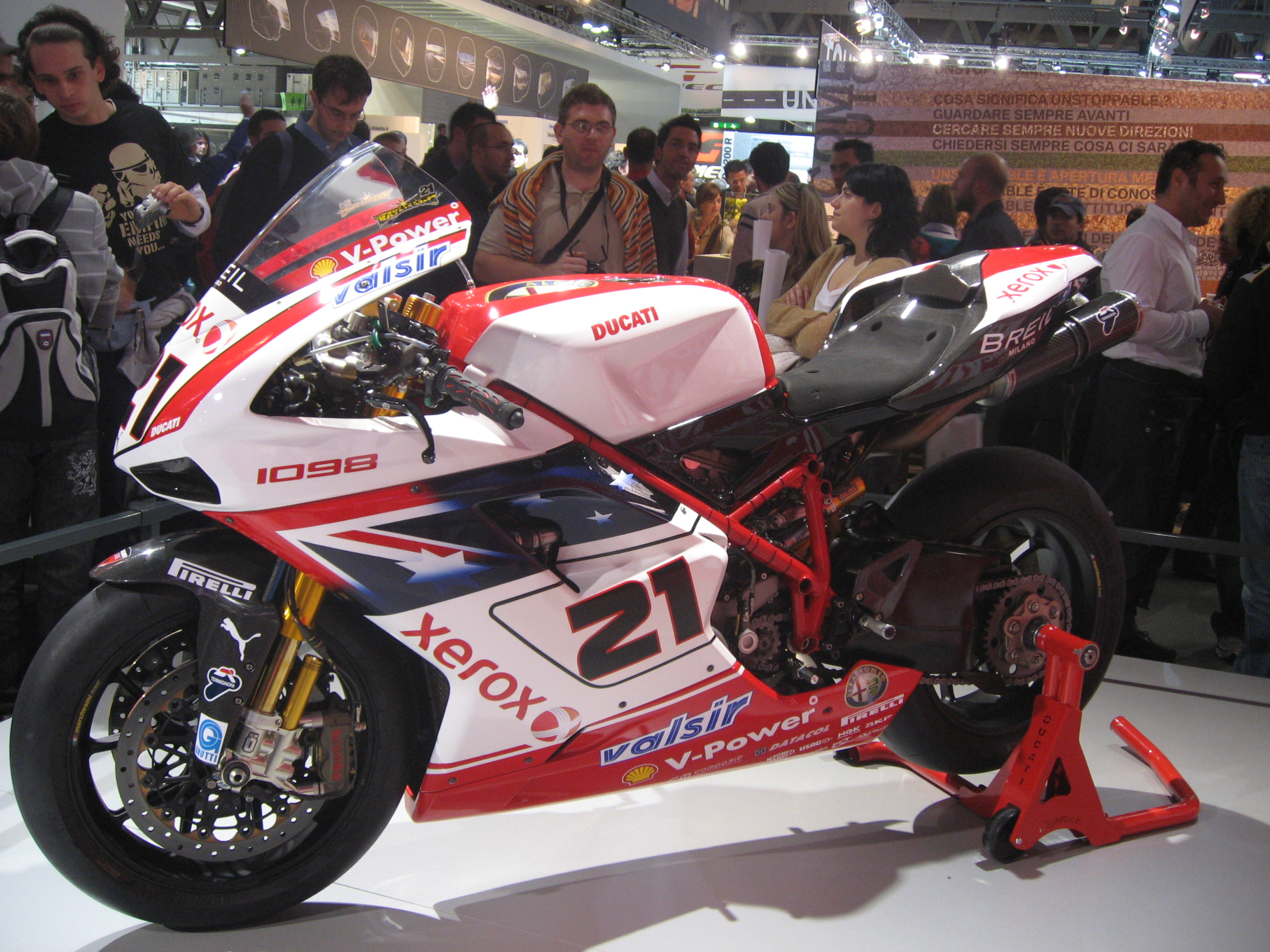 Troy Bayliss' Xerox Ducati 1098 F08, in a special livery used in the Portimao round of 2008 Superbike World Championship, at 2008 Milan Motorcycle Show.